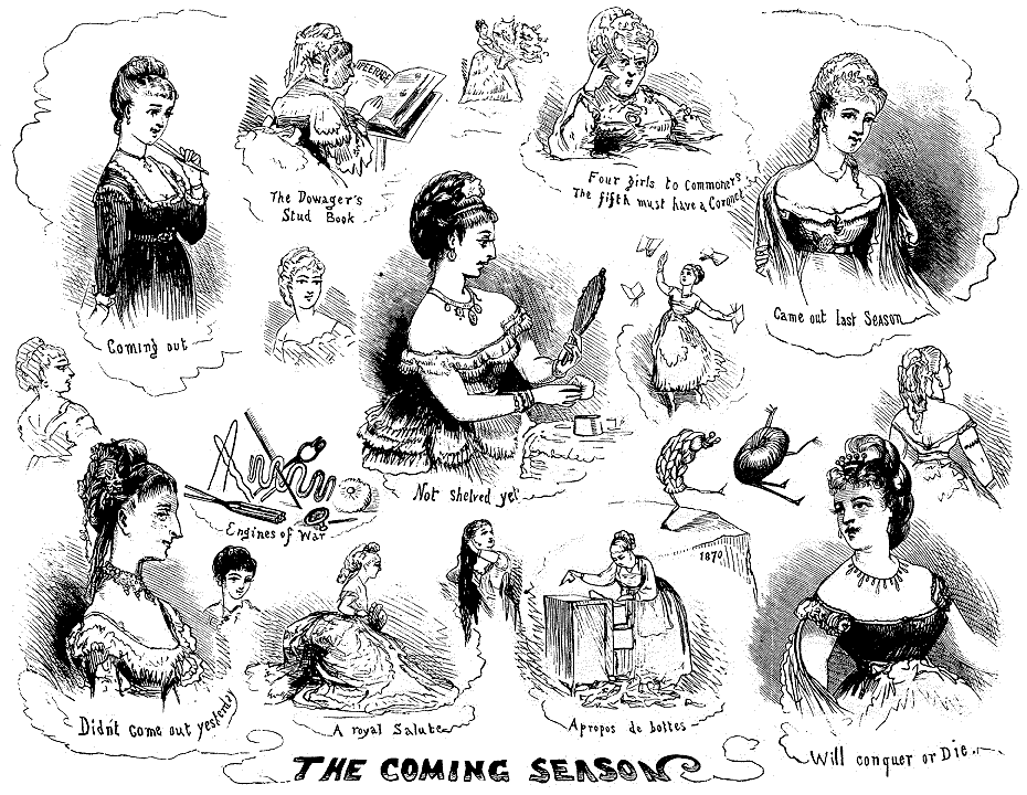 "The Coming Season", an 1870 cartoon satirizing the London social "season", as printed or reprinted in Harper's Bazar magazine. The main theme is young upper-class women (and some not-so-young) determined to find a husband during the social events (balls etc.) of the season. Vignettes include coming "out"; being presented at court; mothers on the hunt for an eligible matrimonial "catch" for their daughters, especially among the scions of nobility; a girl triumphantly throwing aside her books on being promoted from the schoolroom to the ballroom; changing fashions in artificial hair-buns, etc. Captions in image: Depictions of five women: "Coming out" "Came out last Season" "Will conquer or Die" "Didn't come out yesterday" "Not shelved yet" (examining herself critically in mirror) Depictions of two mothers: "The Dowager's Stud Book" (poring over PEERAGE book listing aristocratic heirs) "Four girls to commoners... the fifth must have a coronet." [i.e. of nobility] "Engines of war" (beautifying implements) " A propos de bottes" (rummaging through drawers, big pile of shoes on the floor) "A royal Salute" (deep curtsey as one is formally "presented" to royalty)